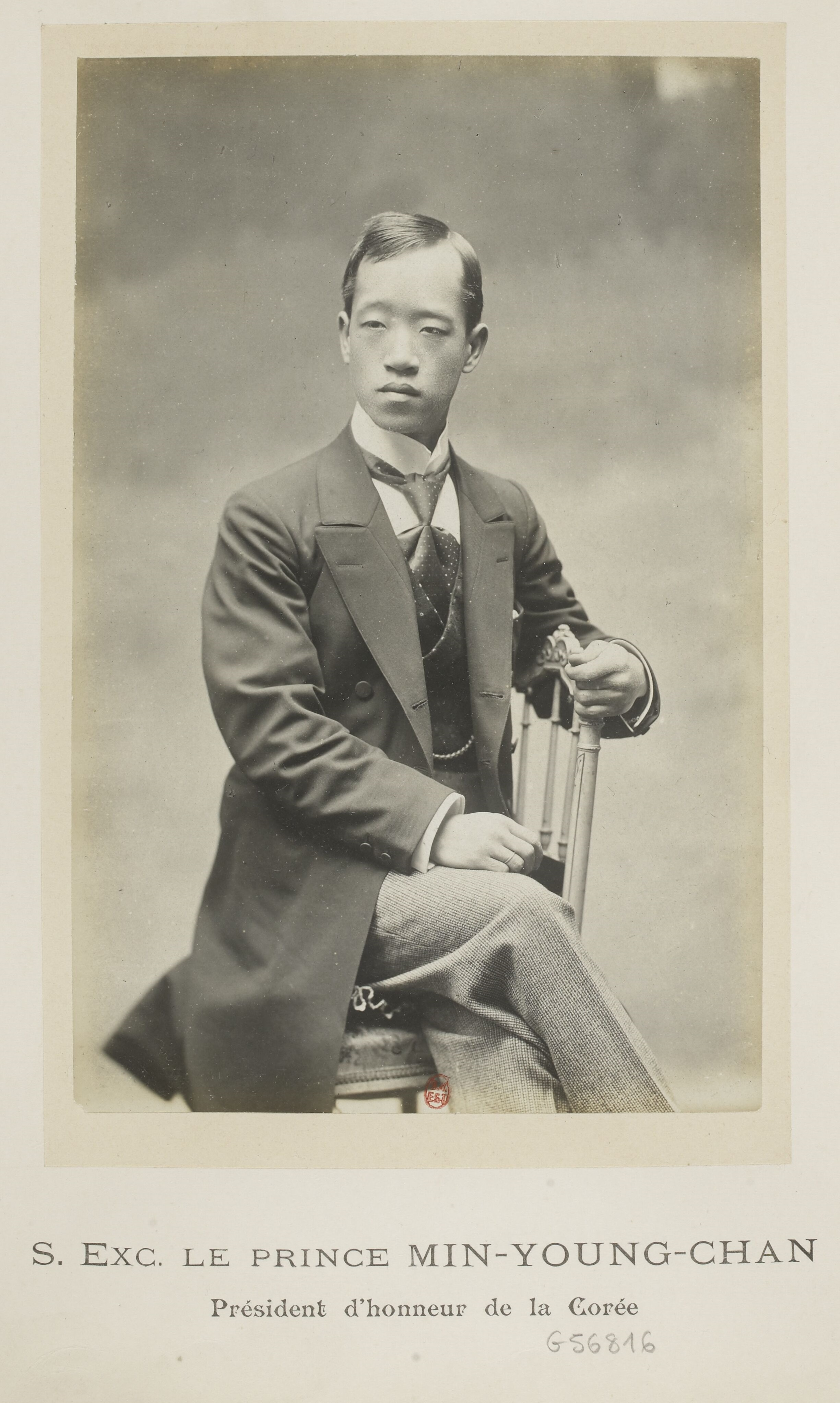 A portrait of Min Yeongchan around 1900, when he was serving as Korean commissioner to the Paris Universal Exposition of 1900.